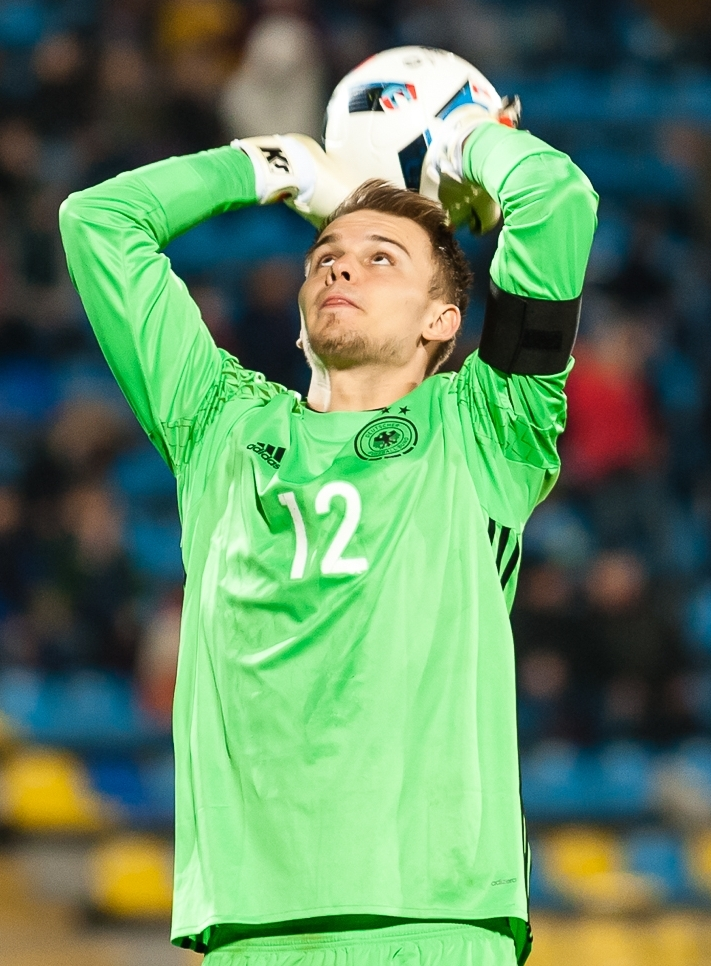 Timon Wellenreuther